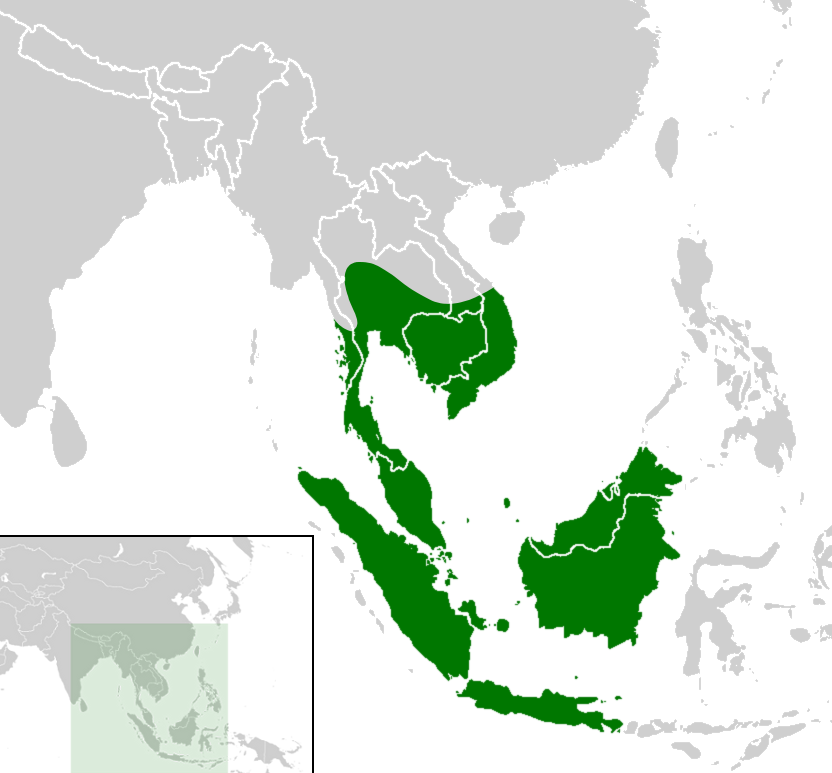 Siebenrockiella crassicollis (Black marsh turtle) distribution map